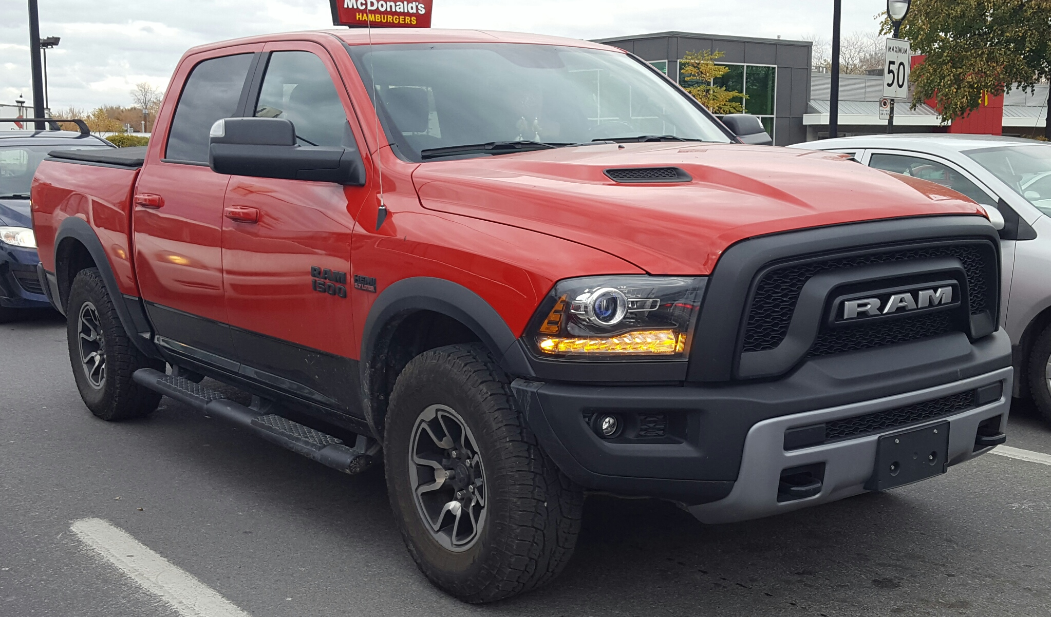 2016 Ram 1500 photographed in Montreal, Quebec, Canada.